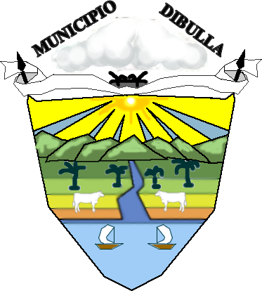 Coat of arms of the Colombian municipality of Dibulla Public domain. Created in 1846.